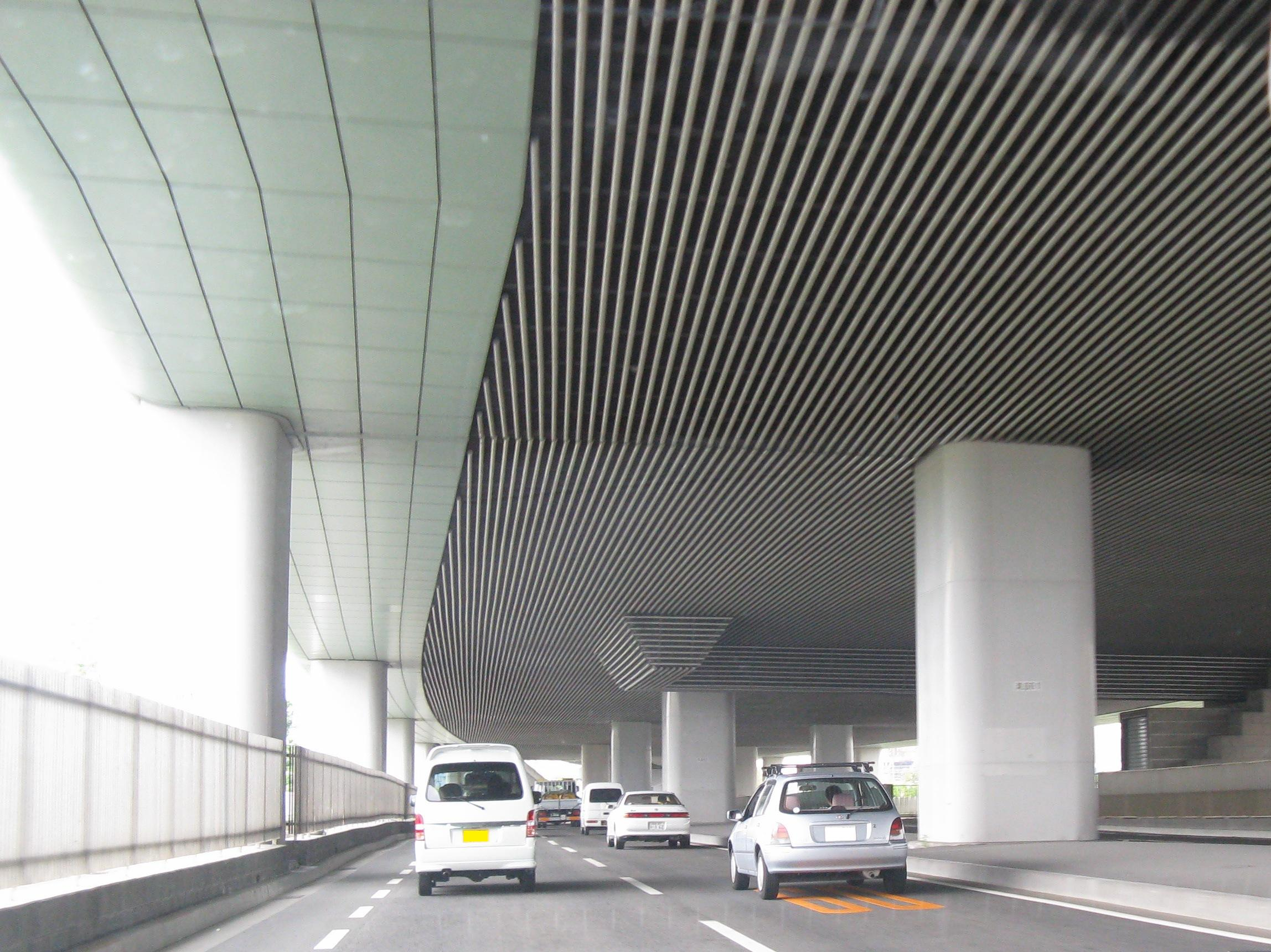 Osaka Prefectural Road 29, AKA Osaka Rinkai Route